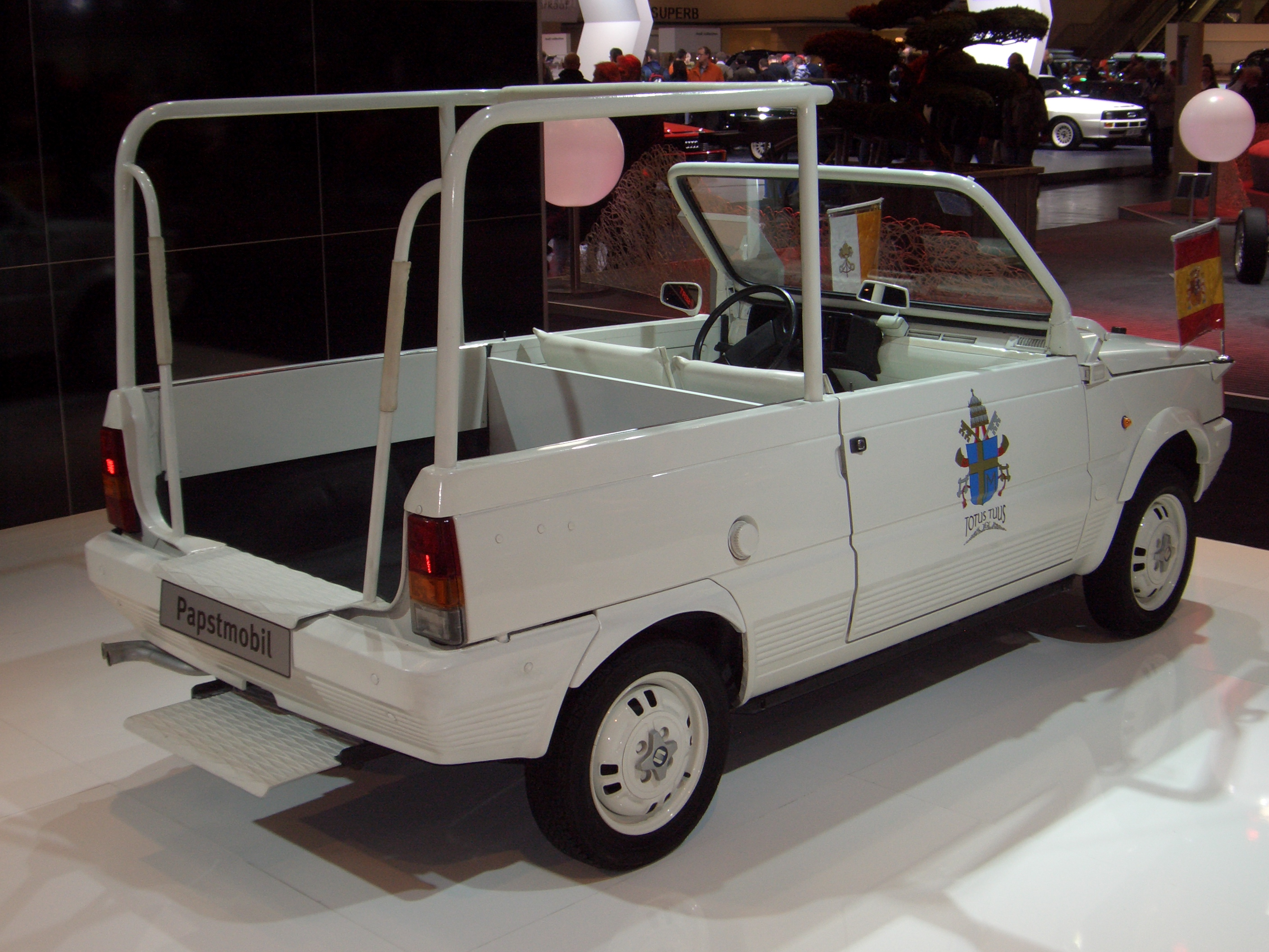 SEAT Marbelle/Panda (1980-1985), Popemobile used by John Paul II. when visiting Barcelona / Spain 1982, seen at TECHNO CLASSICA (Essen, Germany) at SEAT stall